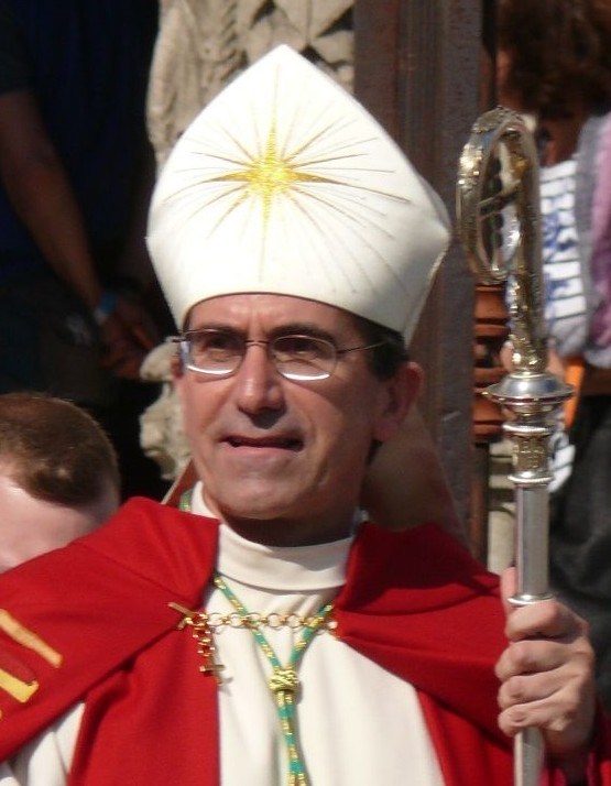 Michel Pansard, bishop of Chartres, in front of Our Lady's cathedral (Chartres, Eure-et-Loir, Centre, France).